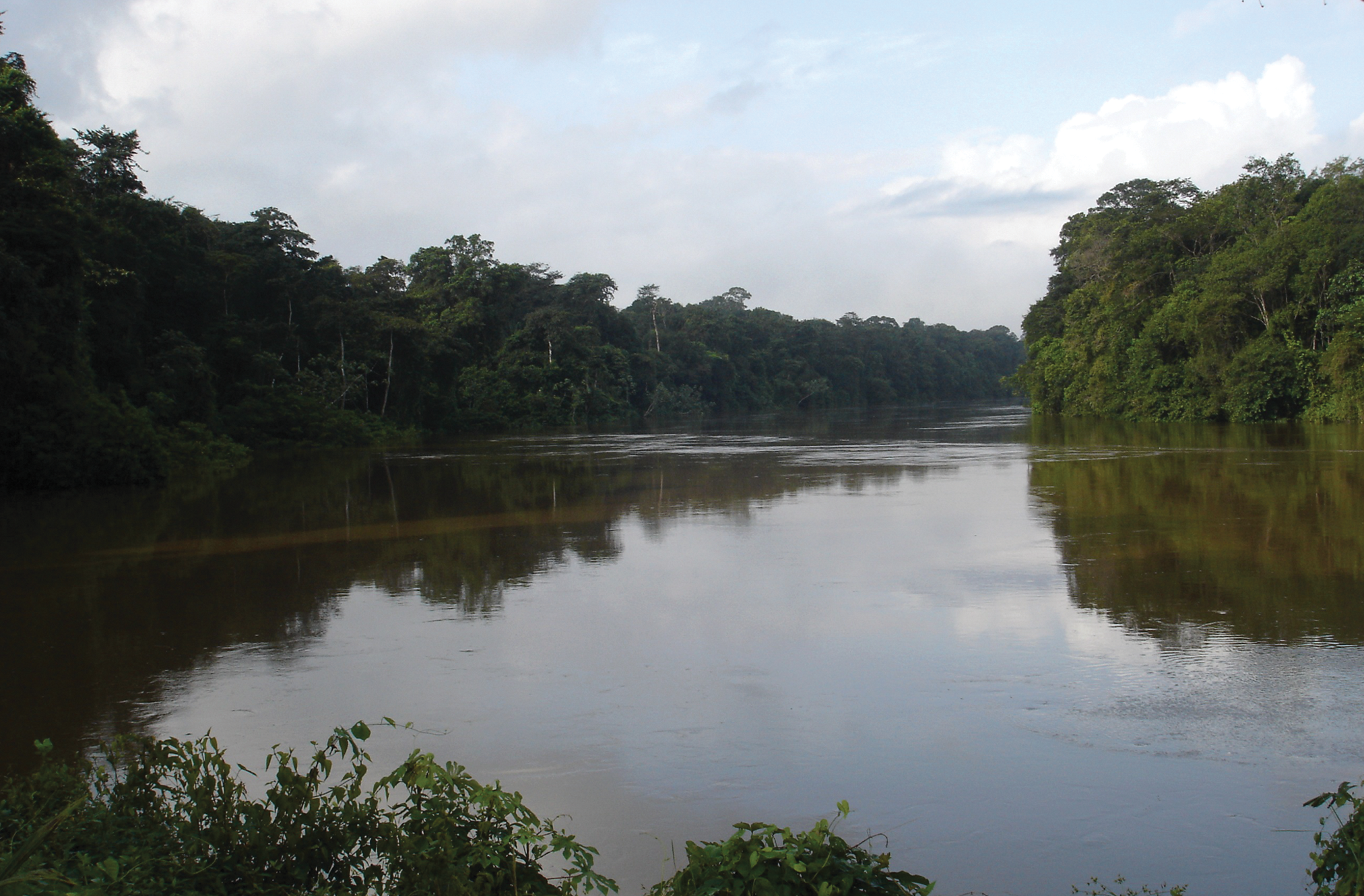 Mana River at Angoulême, French Guiana - type locality of Microcaecilia dermatophaga.